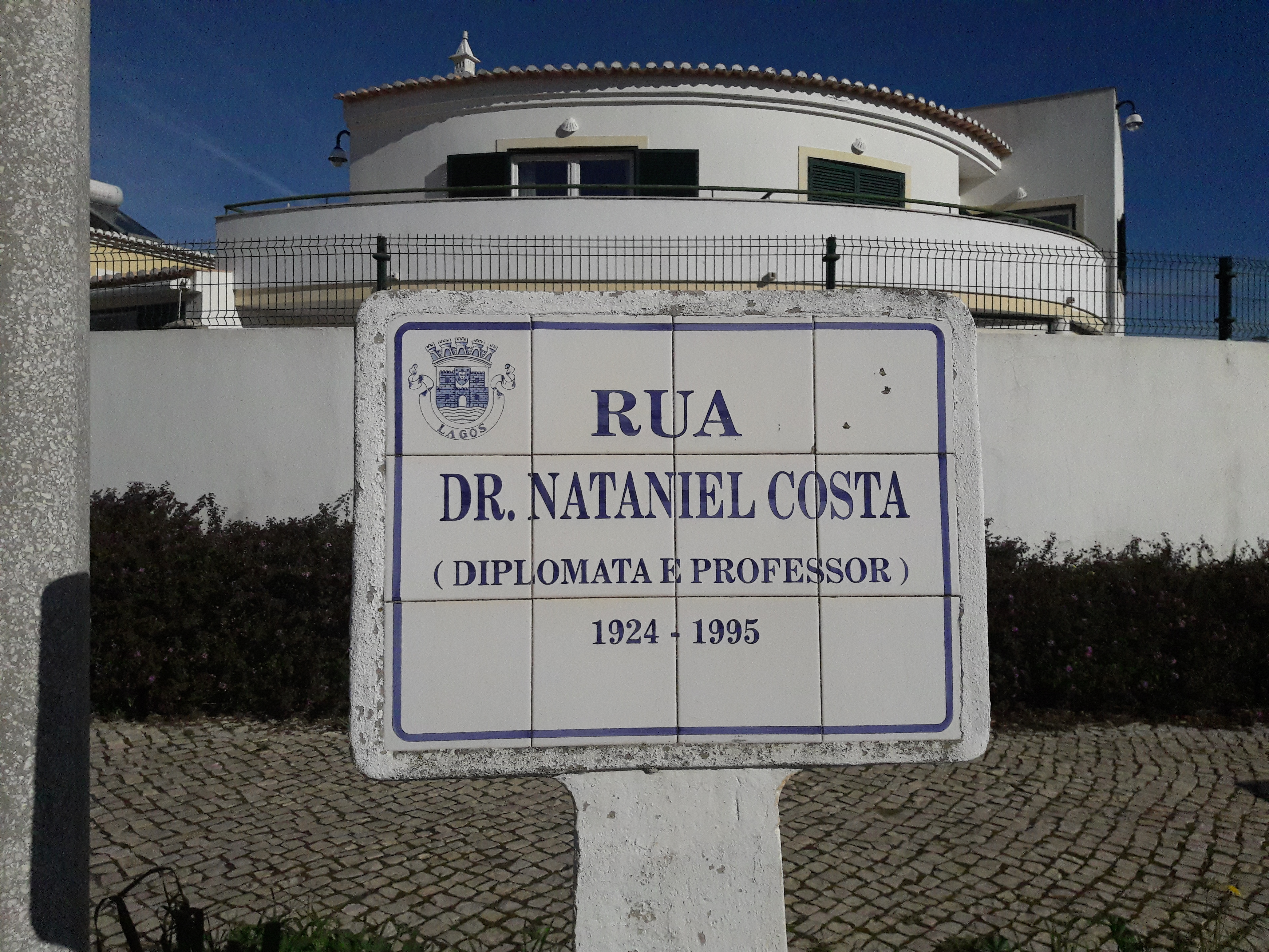 Street sign of Rua Dr. Nataniel Costa, in the city of Lagos, in southern Portugal.